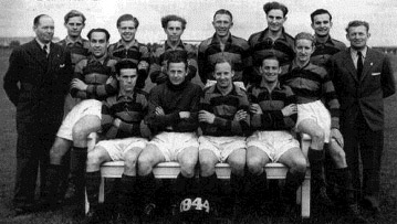 The football team from Boldklubben Frem which won the 1944 Danish championship. According to "Lundberg, Knud (1986). Dansk Fodbold. 1. Fra Breslau til Bronceholdet. Copenhagen: Rhodos. p. 210. ISBN 87-7245-132-7.", the players are: Standing, l-r: Axel Rasmussen (masseur), Svend Frederiksen, Johannes Pløger, Kaj Christiansen, Leo Nielsen, John Hansen, Walter Christensen, and Pauli Jørgensen (coach) Sitting, l-r: Helmuth Søbirk, Hans Colberg, Egon Sørensen (goalkeeper), Leo Christiansen, Erling Sørensen, and Knud Larsen